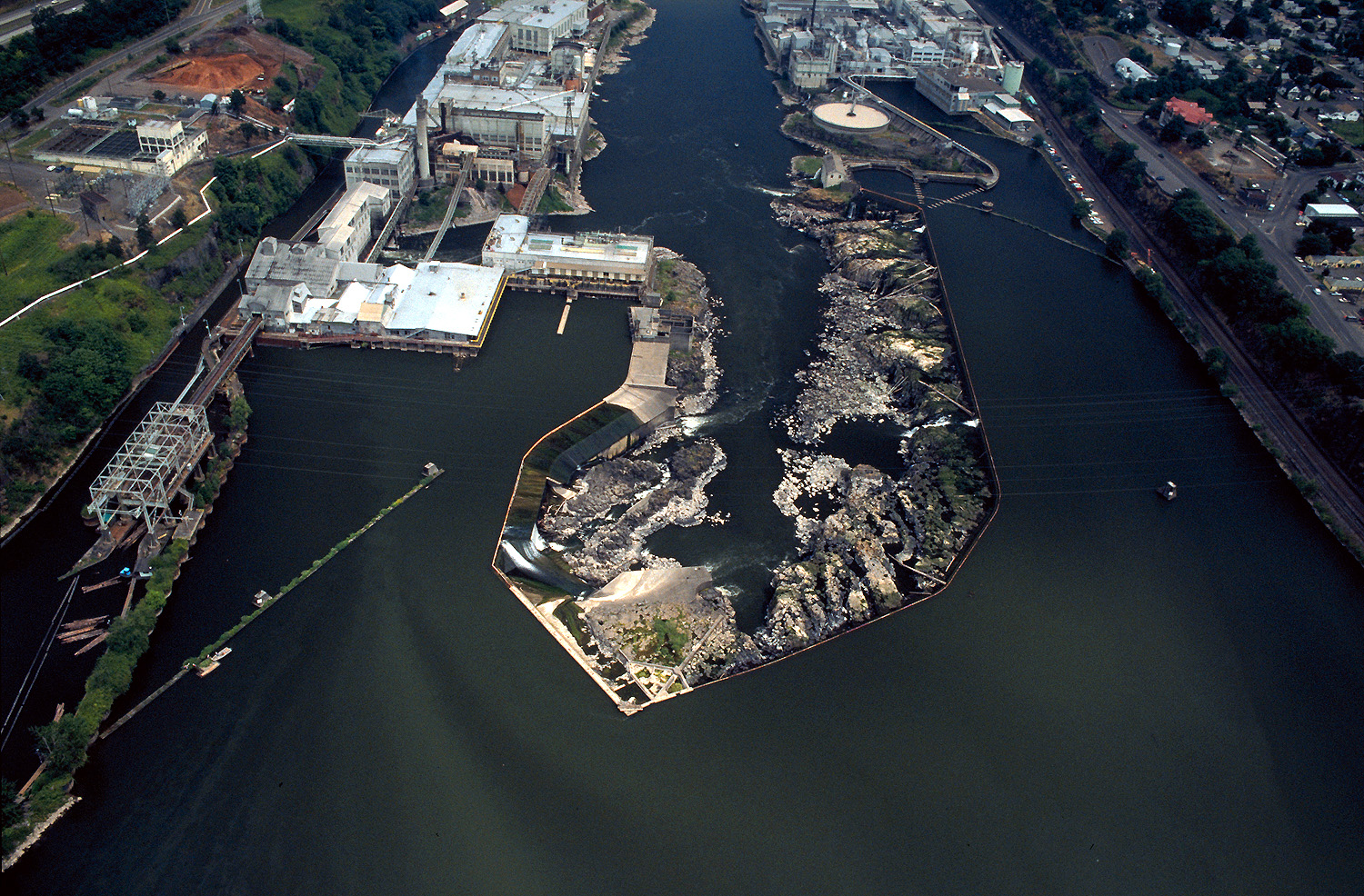 Willamette Falls on the Willamette River at Oregon City, Oregon, USA. View is downriver to the northeast. Willamette Falls Locks are on the far left.